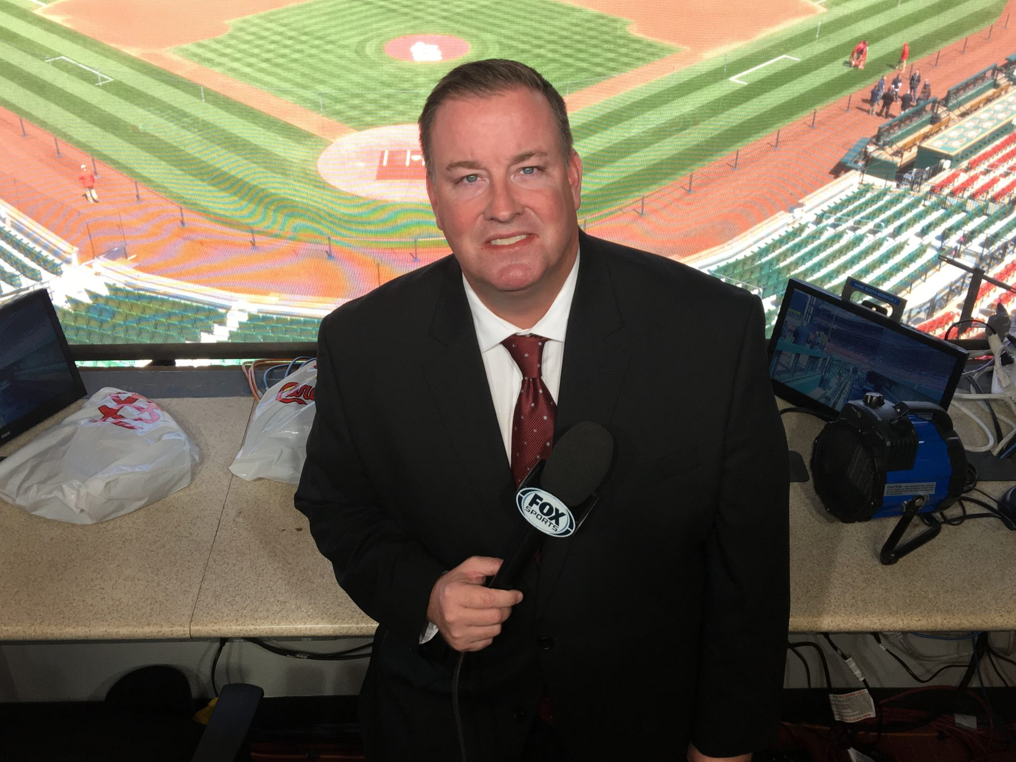 Dan McLaughlin in broadcast booth before St. Louis Cardinals game